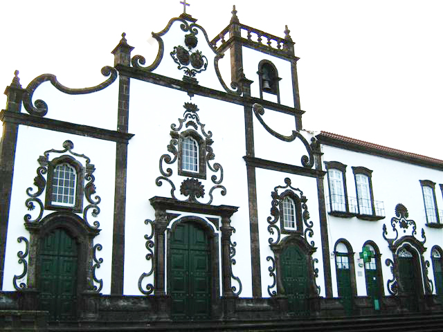 The old Church and Hospital of the Misericórdia, or Church of Senhor Bom Jesus da Pedra, civil parish of São Miguel, municipality of Vila Franca do Campo (Azores), Portugal